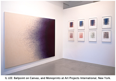 IL LEE: Ballpoint on Canvas, and framed Monoprints at Art Projects International in New York, 2011.